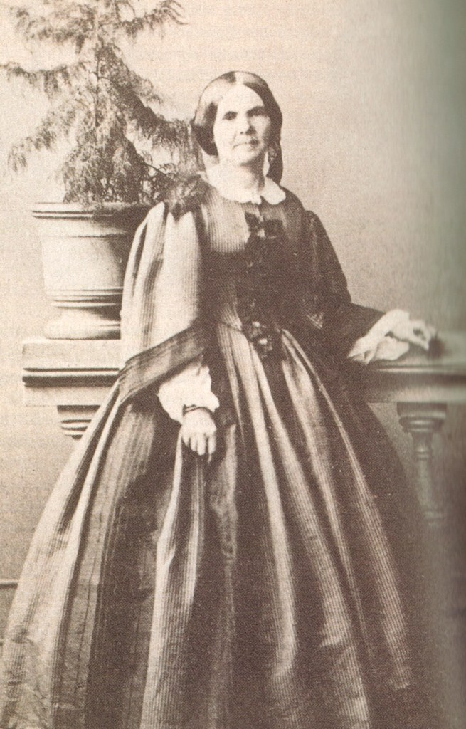 Josephine Welhaven (1812-1866), née Bidoulac, wife of norwegian writer Johan Sebastian Welhaven. Unknown photographer